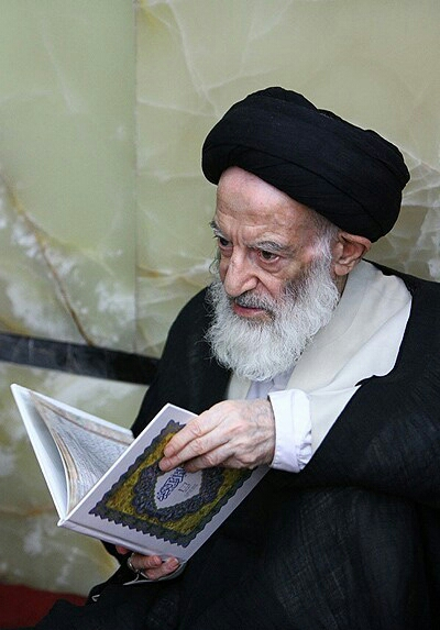 Grand Ayatollah Musa Shubairi Zanajni